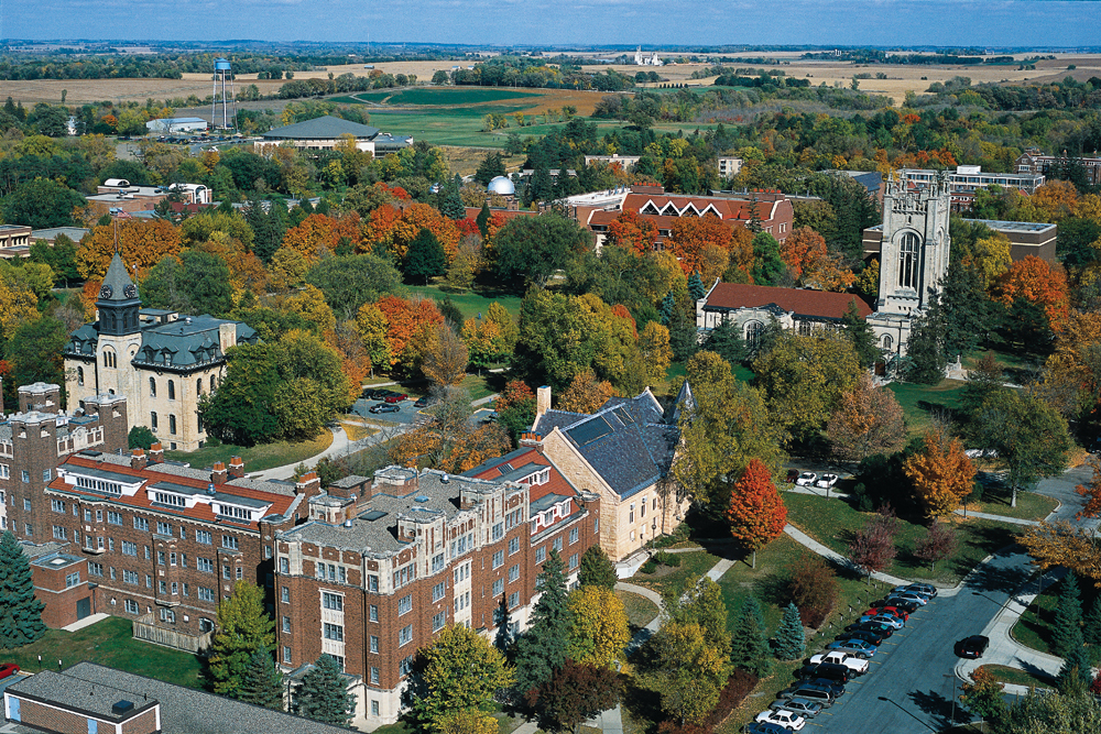 Carleton College campus photo.